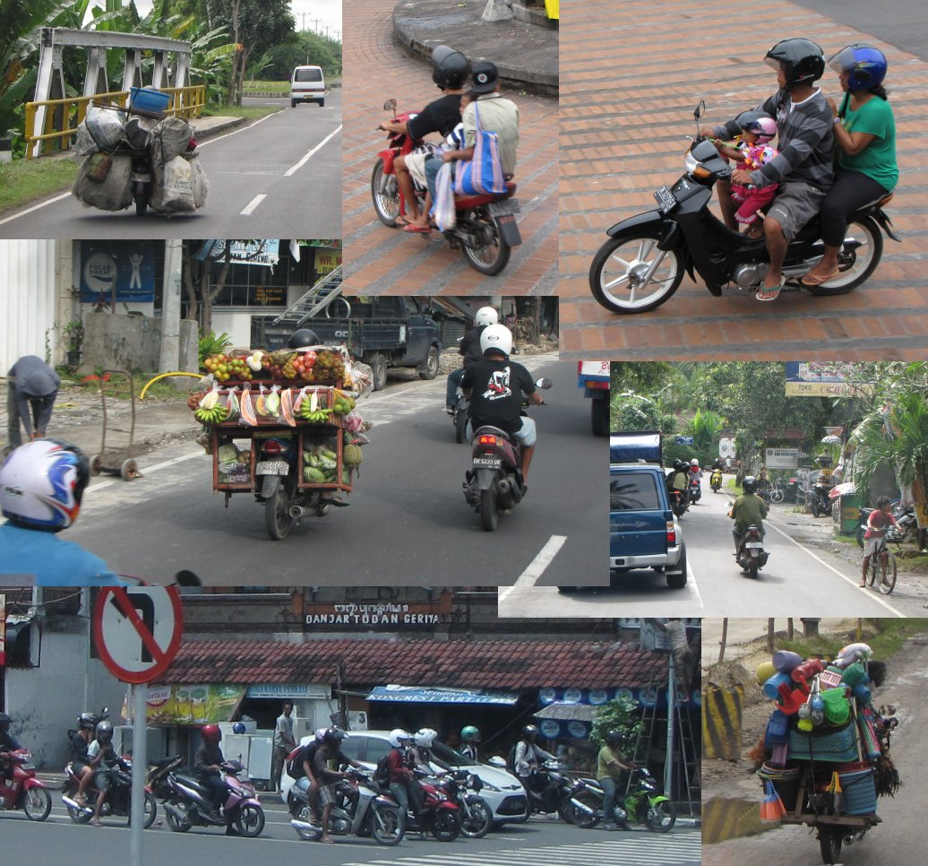 Collage of mopeds in Bali